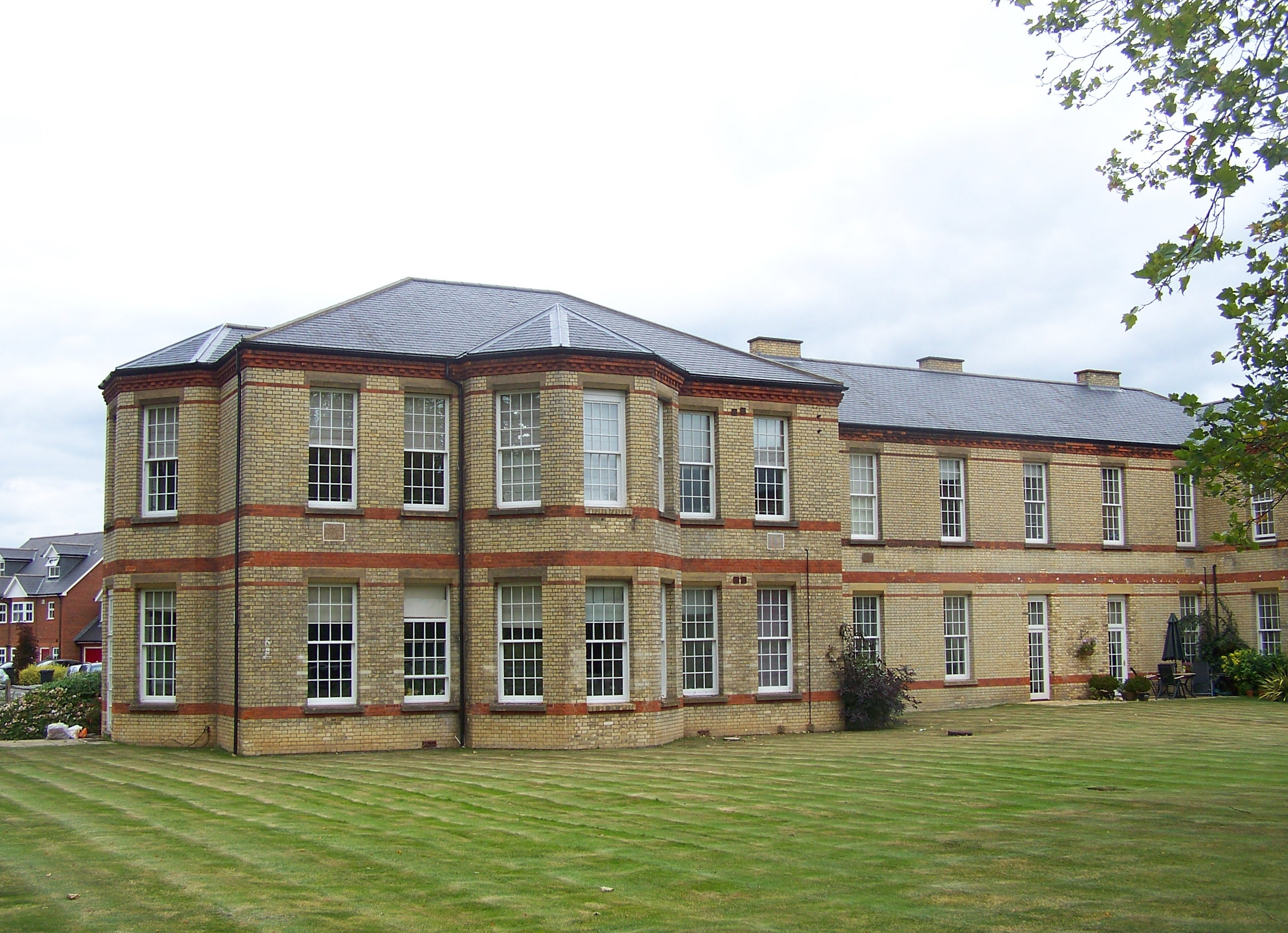 Former ward blocks in converted to apartments at Horton Hospital, taken in 2009